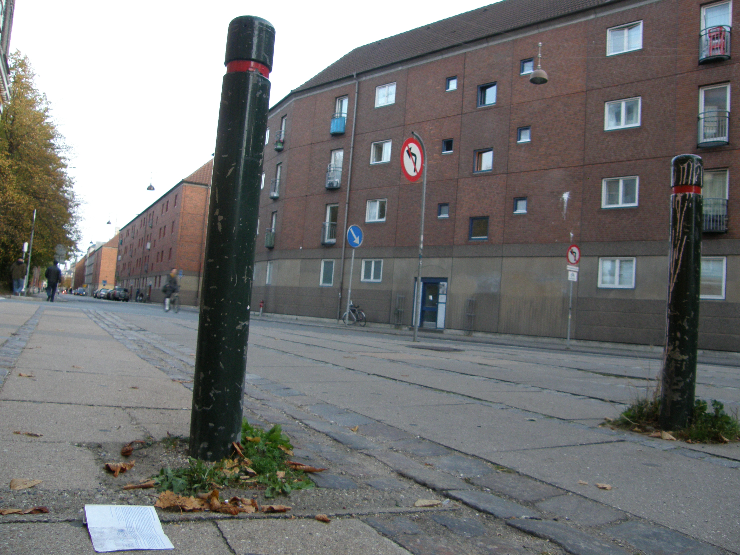 The Allotria-house was torn down in 1983, the house was located on the right, approx, between the two posts, and the posts also symbolises where the escape tunnel was dug I took this picture as part of the wikinat External Links